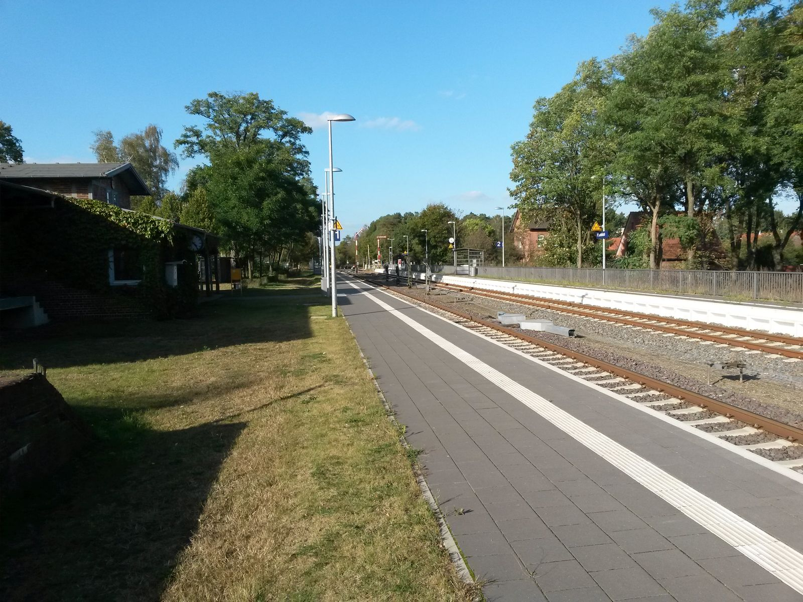 Railwaystation Handeloh